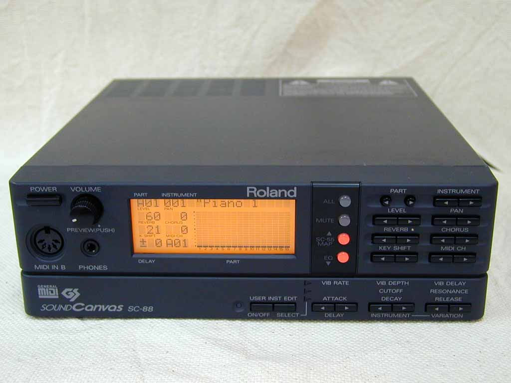 Roland SC-88